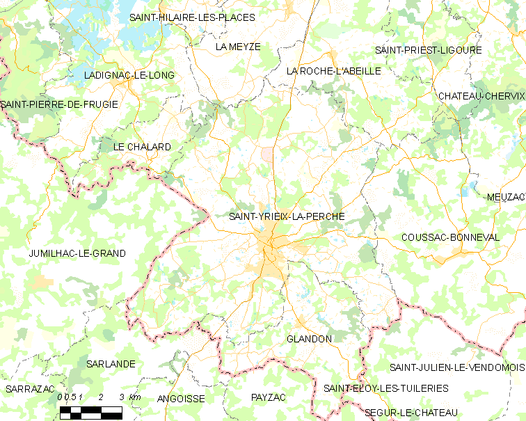 Map of French municipality Saint-Yrieix-la-Perche